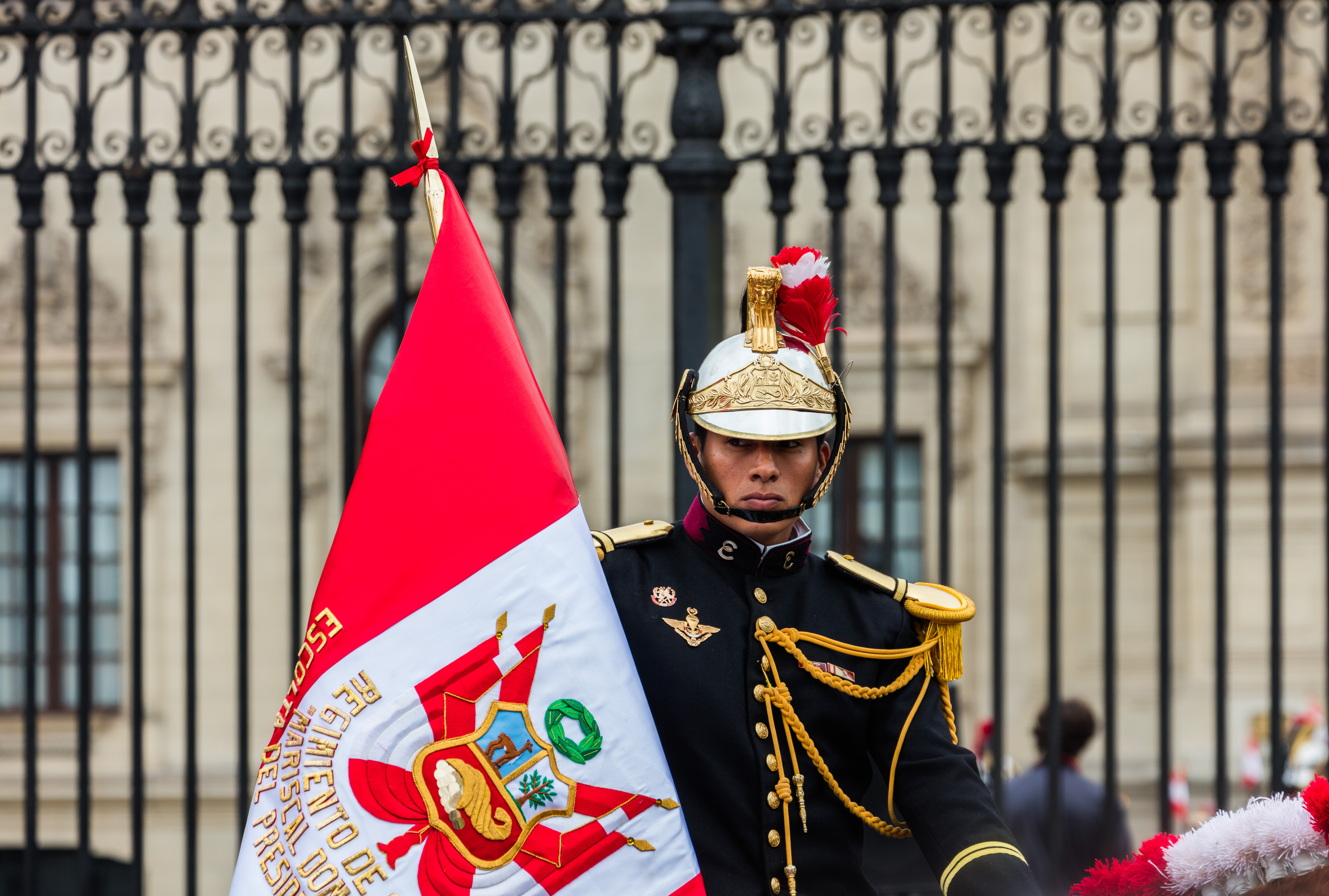 Presidential guard, Plaza de Armas, Lima, Peru